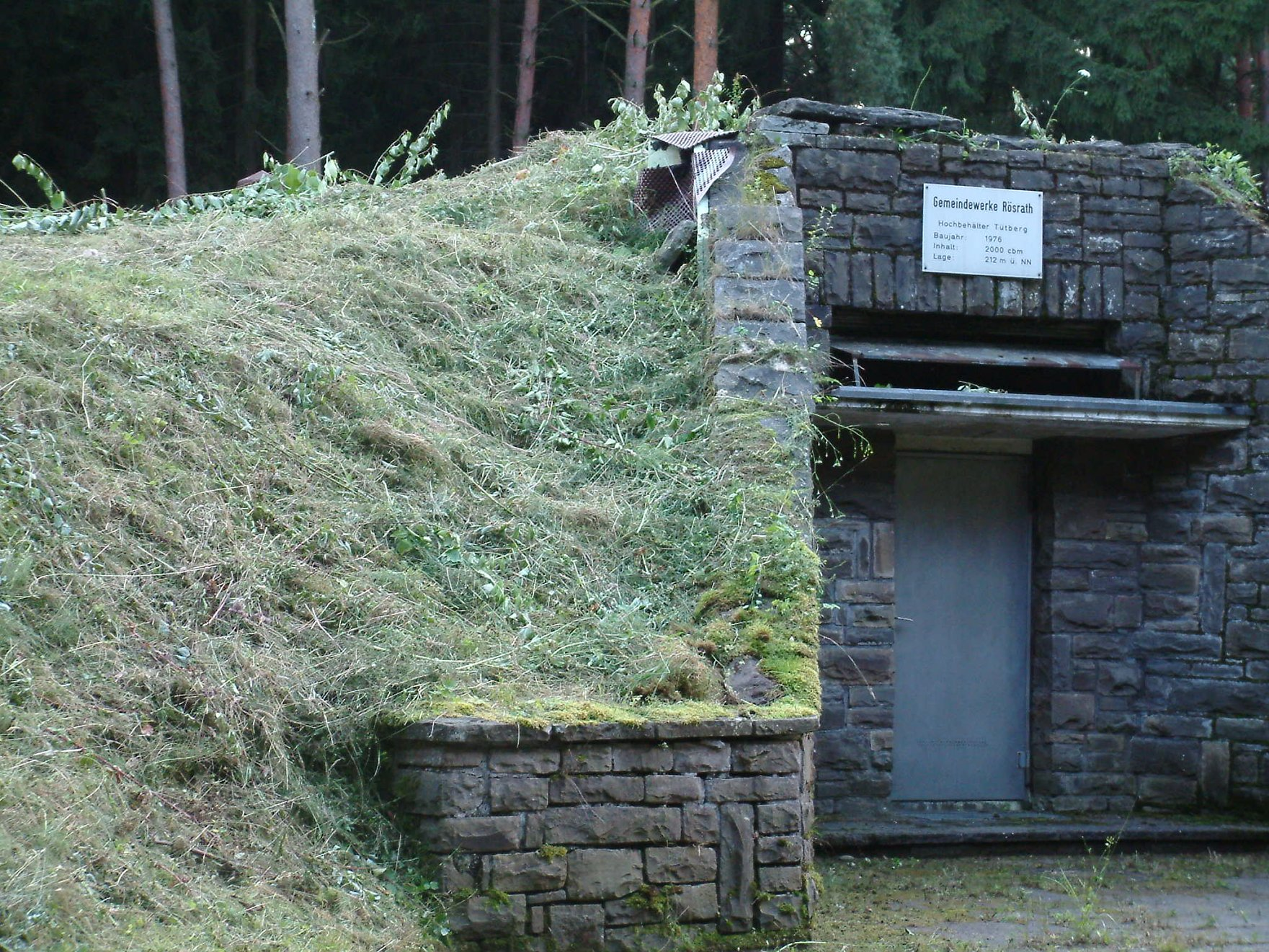 Tütberg, highest point (212m) within area of Königsforst.